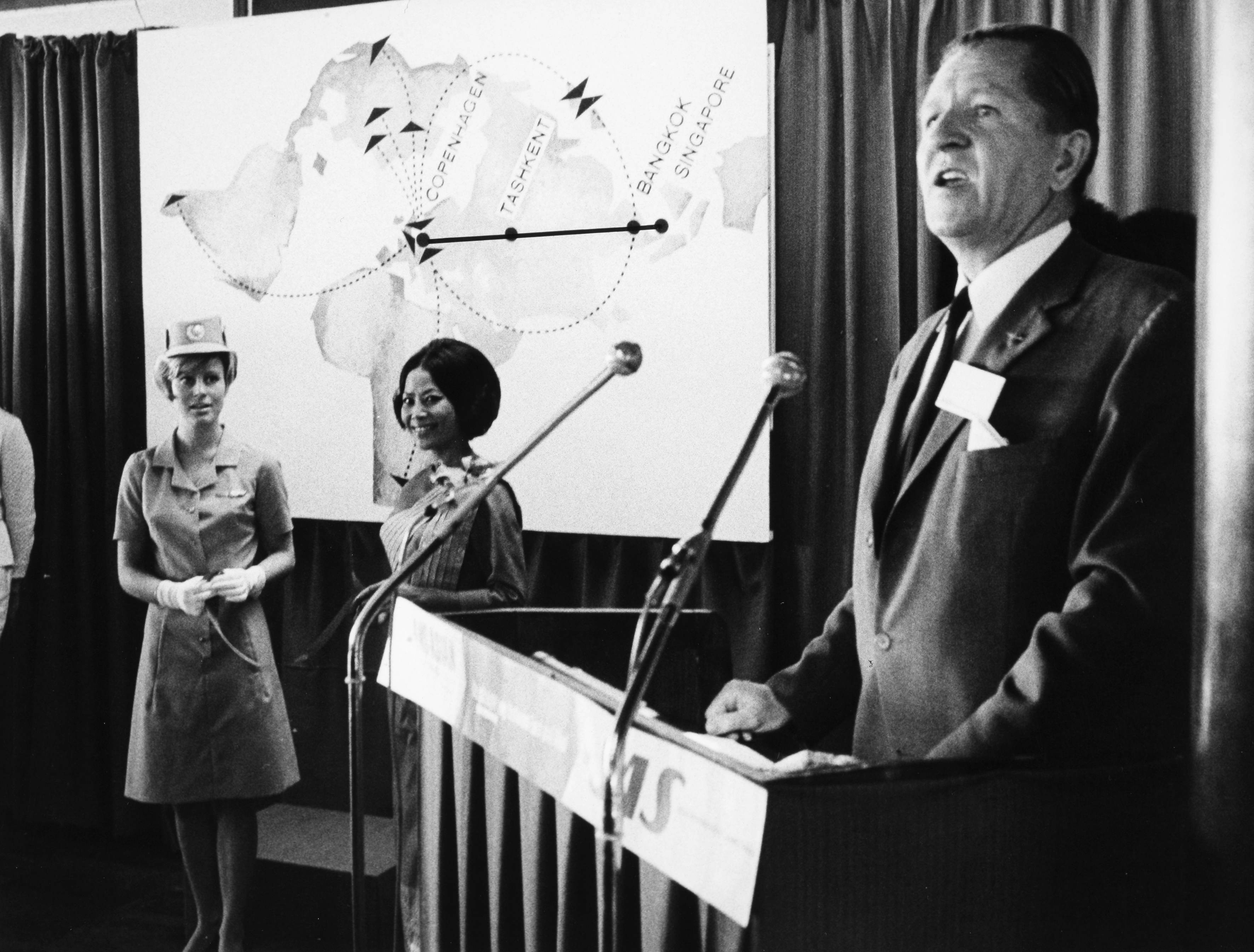 SAS Inauguration of SAS Trans-Asian Express in Copenhagen before the 15 hours trip to Tashkent, Bangkok and Singapore was President Karl Nilsson, assisted by Air Hostess Carin Nemvill, Thai hostess Bubpha Raksaj, and first commander Captain K.A. Bengtsson